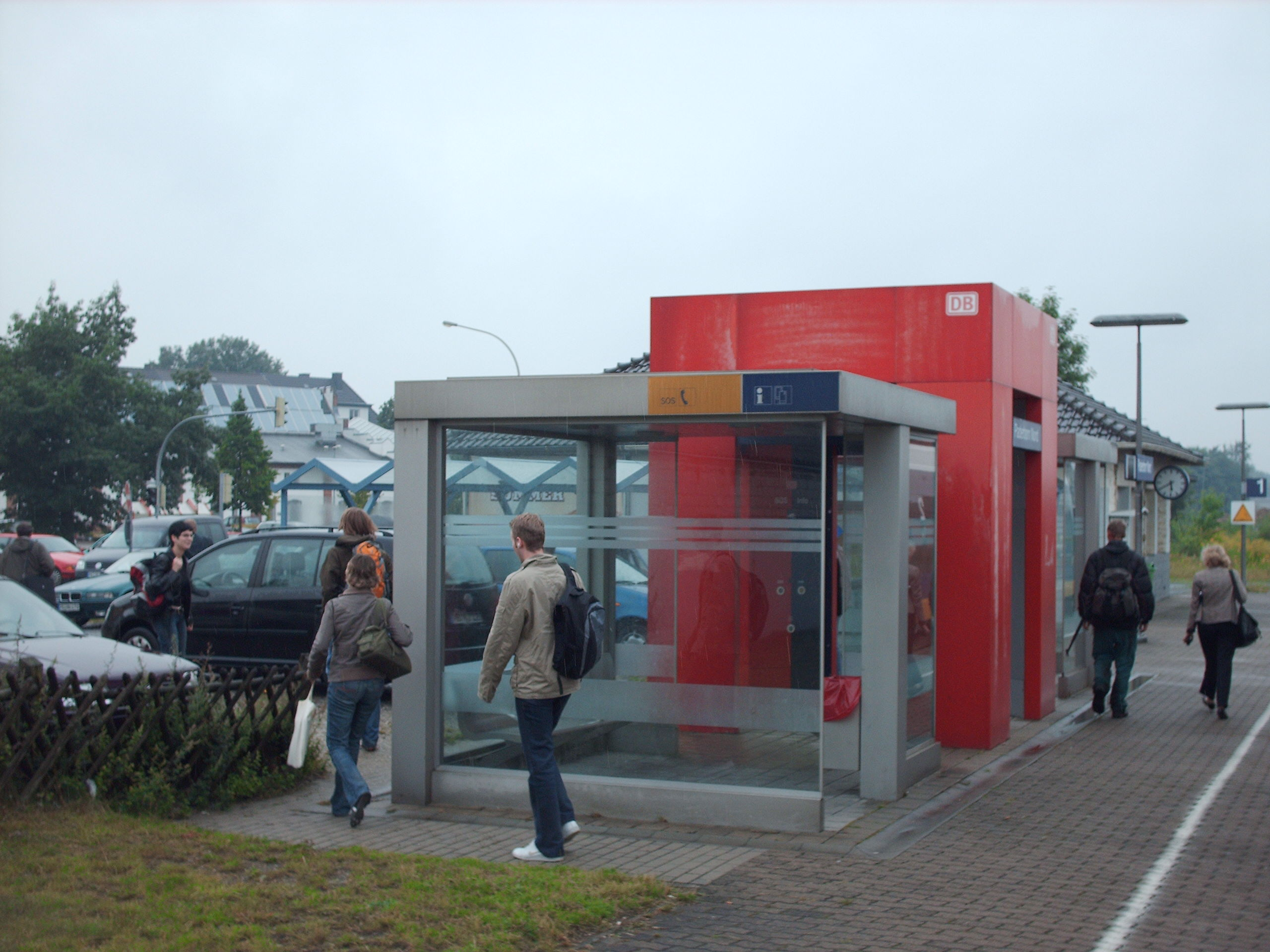 Paderborn Nord station, Paderborn, Germany check usage